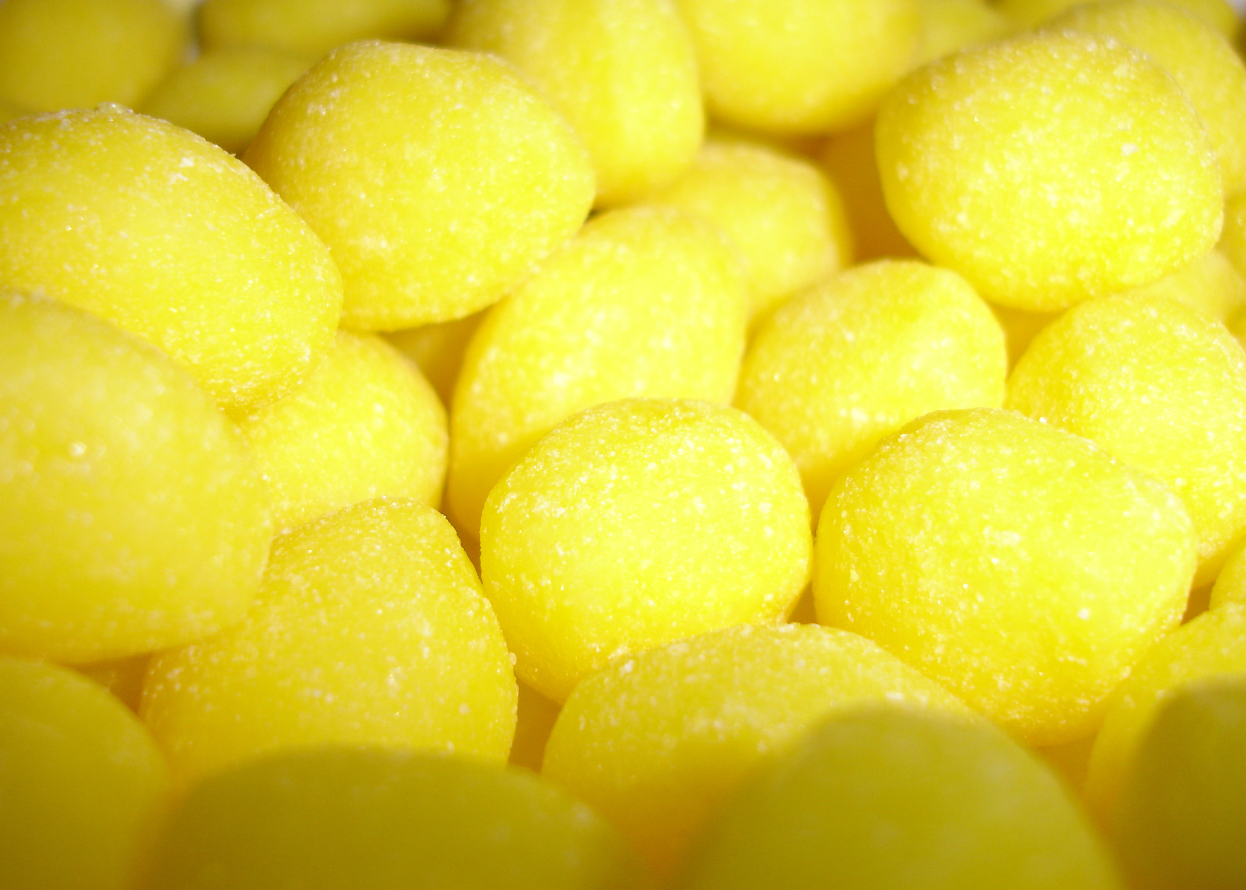 Sweet, sugary Brach's lemon drops. Made with real lemon juice!